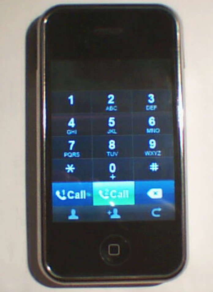 Pic of a CECT i9 in the dialing screen. This dual SIM phone lets you call from any SIM card without needing to disable the other one.